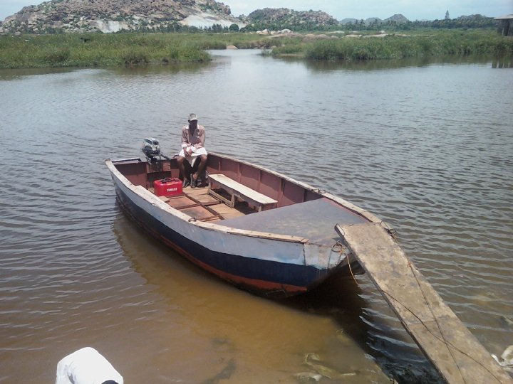 I have clicked this photo during my visit